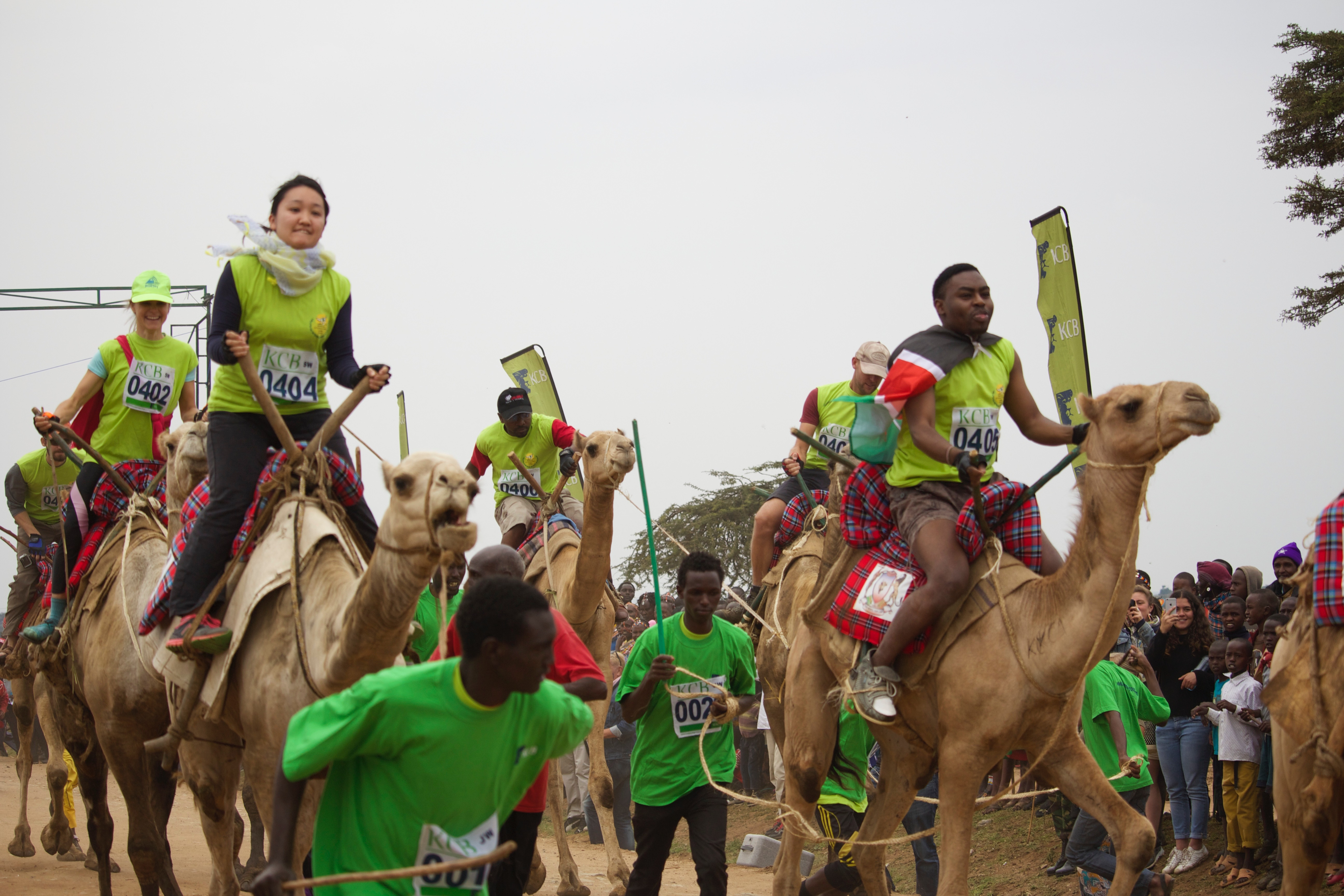 Racing Camels during the Maralal Camel Derby in Samburu, Kenya, 2017. This is an image with the theme "Play" from: Kenya